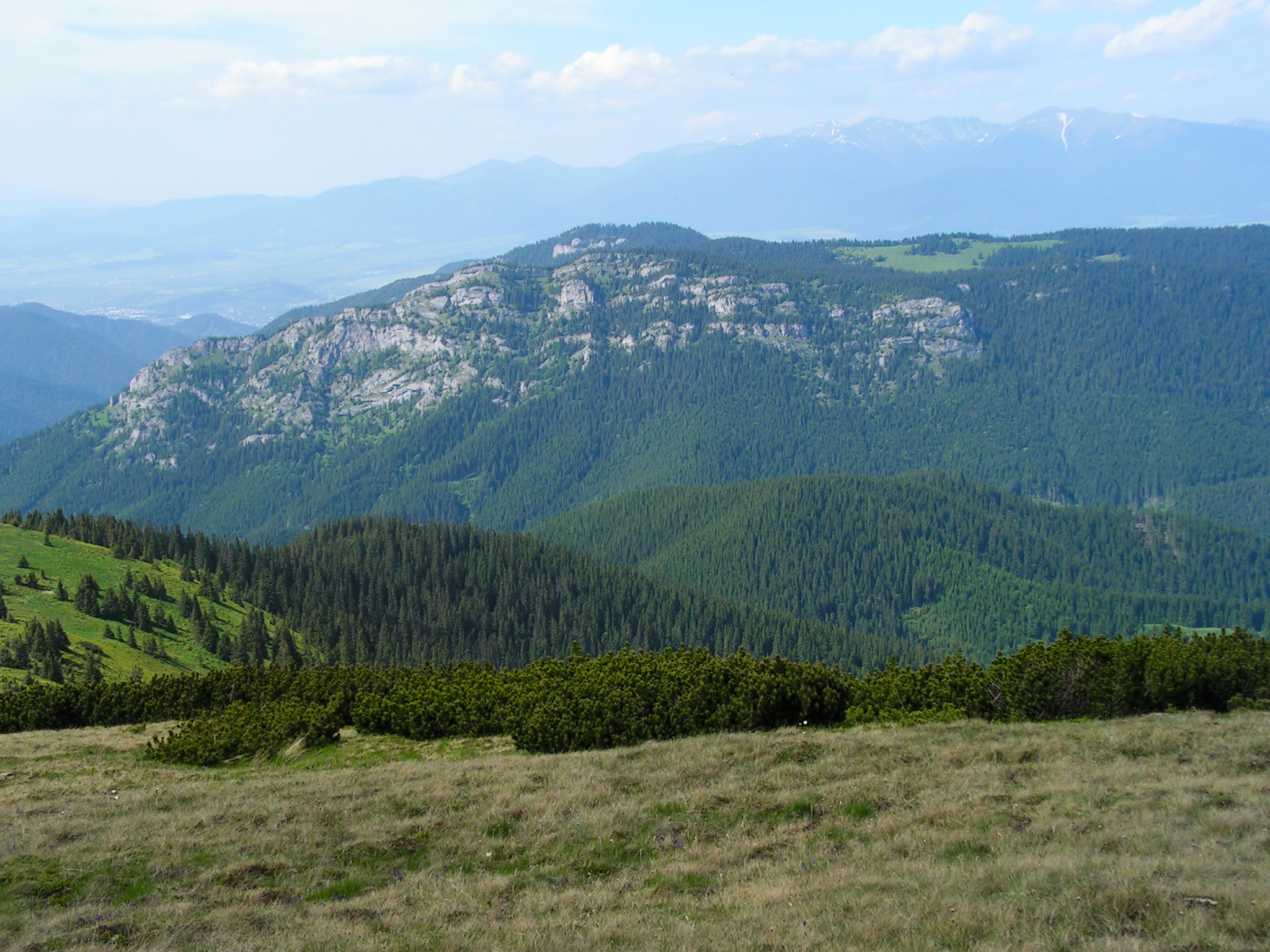 Ohnište (1538 m), view from the south (below the summit of Rovná hoľa).